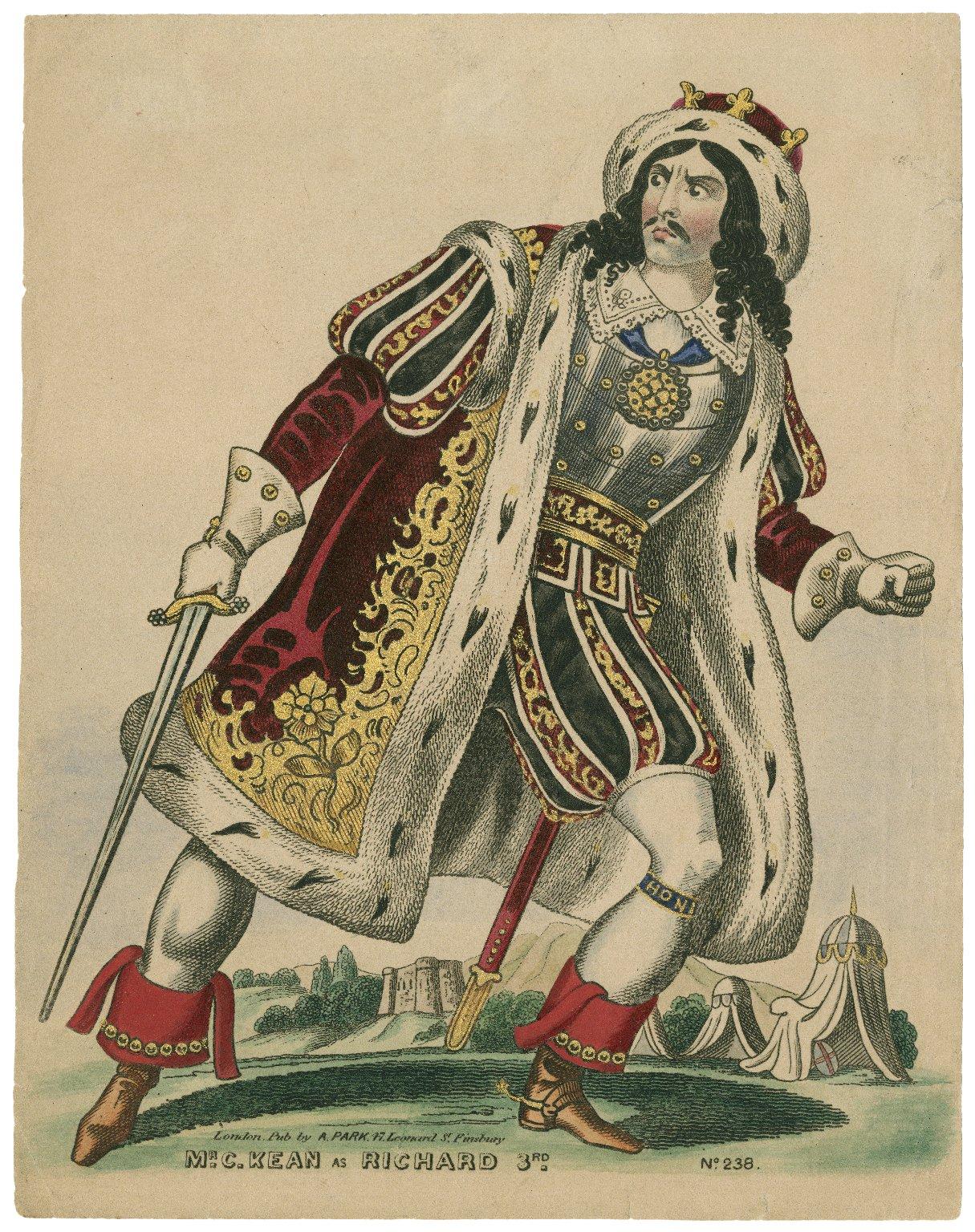 Print of Kean playing Richard III, from a mid 19th century performance of the play.